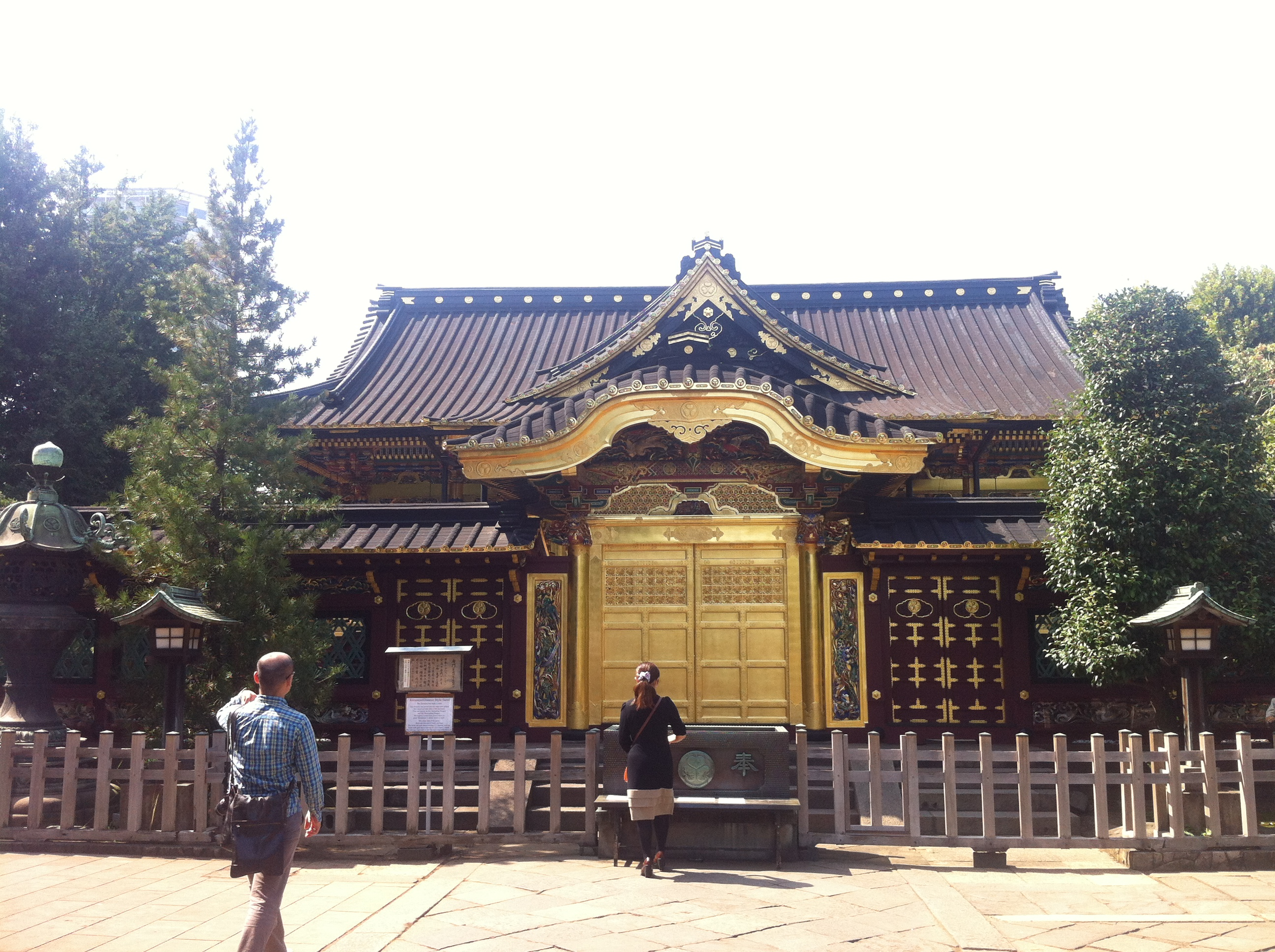 修復工事した後の上野東照宮 (Ueno Tōshō-gū after restoration work)